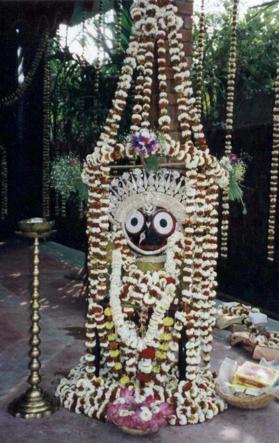 Jagannath, Aspekt of Krishna, decorated for a Odissi (classical dance) festival